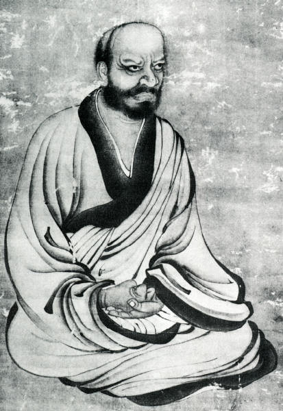 Rinzai Gigen, 18th century. Ink portrait of Rinzai (Linji), by 曾我蛇足 Soga Jasoku (fl. c. 1300) from the collection of Daitokuji, Yōtokuin. 大徳寺養徳院所蔵. See Hasegawa Tōhaku: 400th Memorial Retrospective, Tokyo Museum of Art, 2010, p. 270.